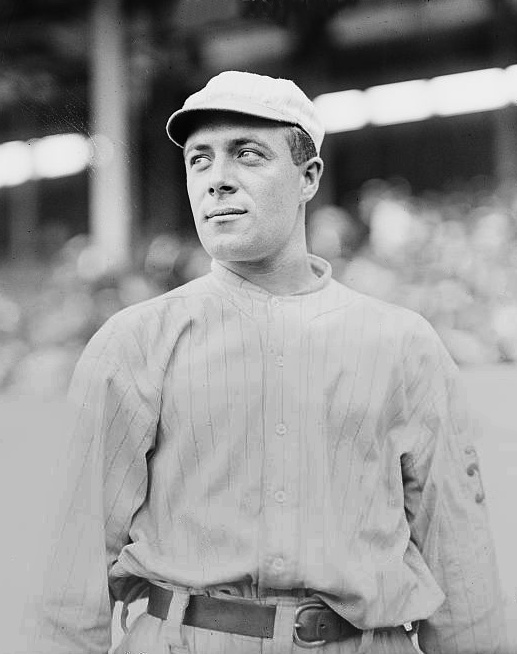 Bain News Service,, publisher. [George J. Burns, New York NL (baseball)] [1913] 1 negative : glass ; 5 x 7 in. or smaller. Notes: Original data provided by the Bain News Service on the negatives or caption cards: Burns, Giants. Corrected title and date based on research by the Pictorial History Committee, Society for American Baseball Research, 2006. Forms part of: George Grantham Bain Collection (Library of Congress). Format: Glass negatives. Repository: Library of Congress, Prints and Photographs Division, Washington, D.C. 20540 USA, General information about the Bain Collection is available at Persistent URL: Call Number: LC-B2- 2805-14